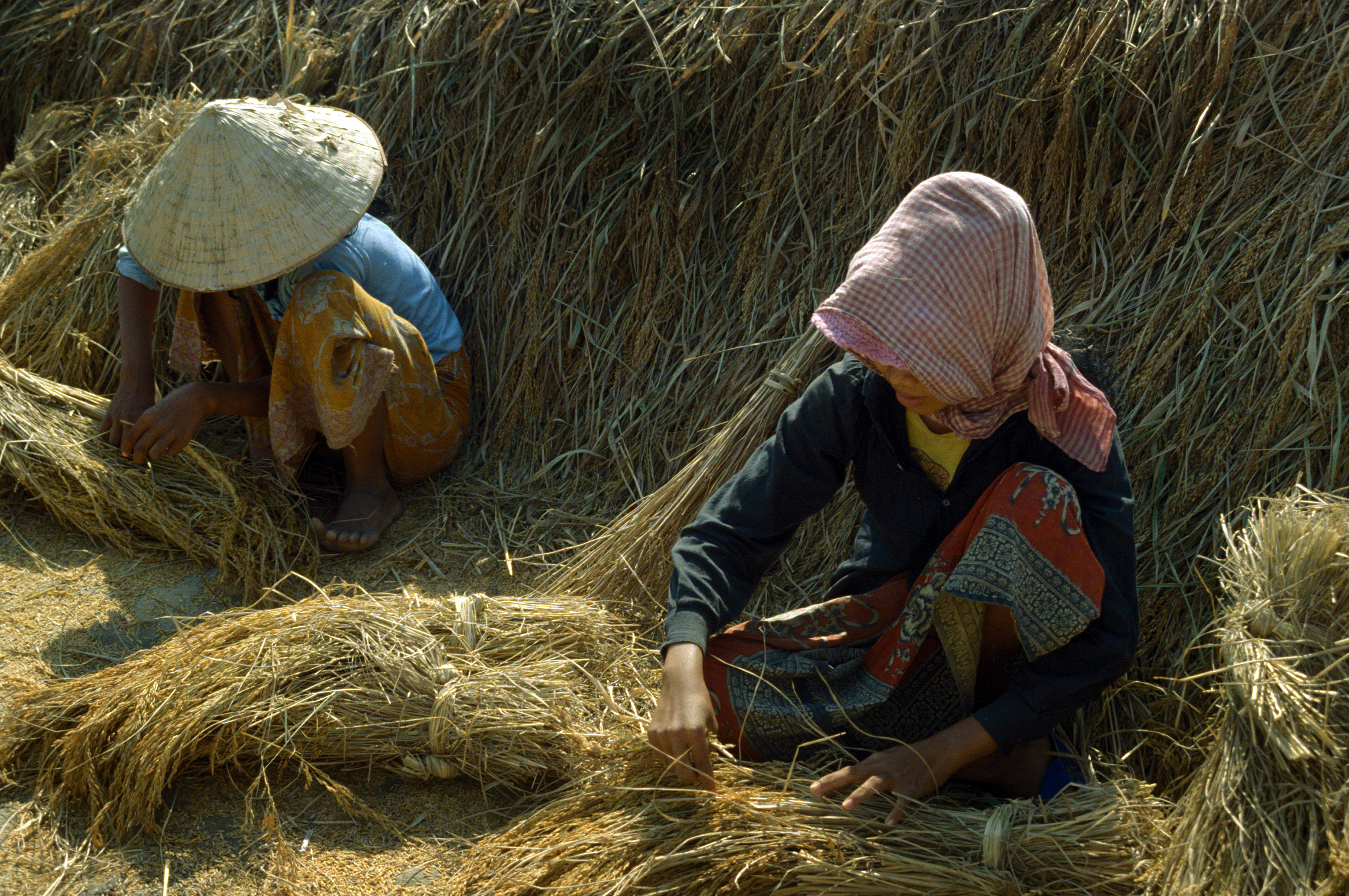 Rice farming in Cambodia